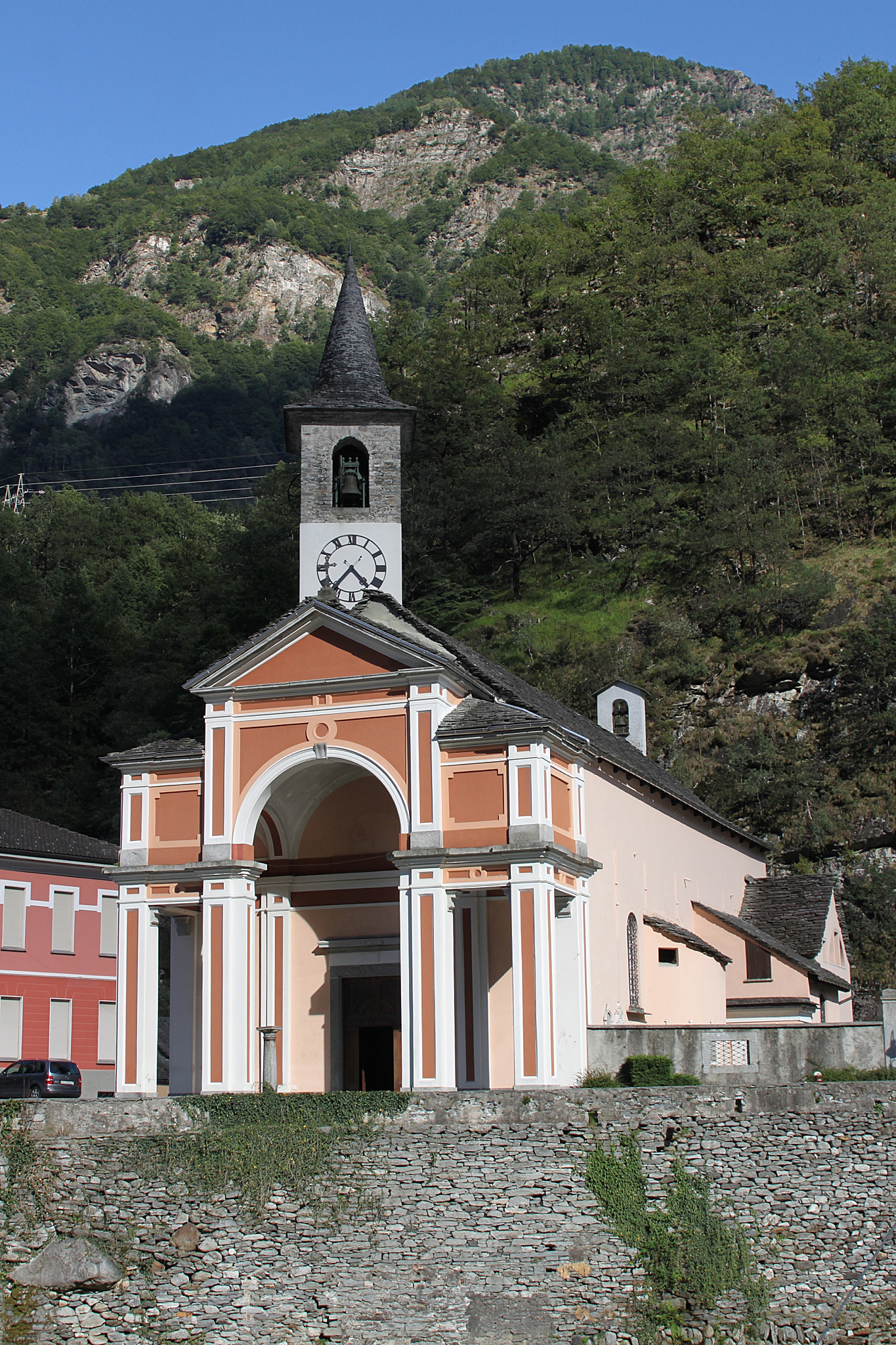 San Michele church in Bignasco.